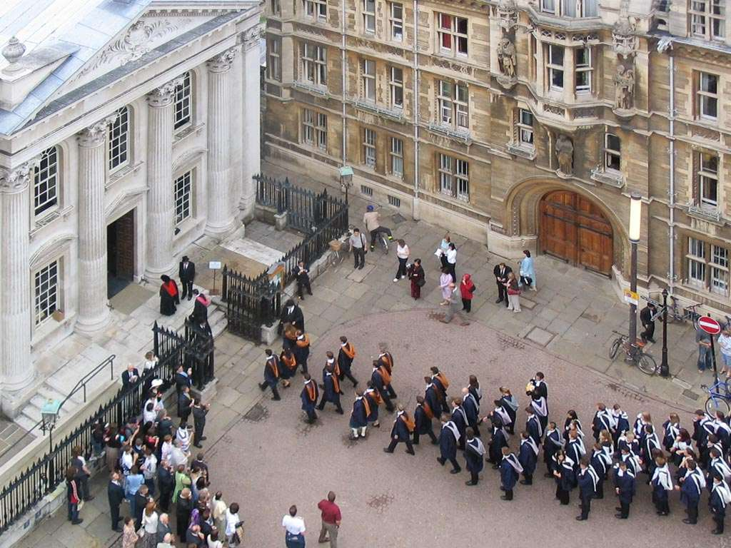 Trinity College graduands entering the Senate House during a University of Cambridge graduation ceremony.